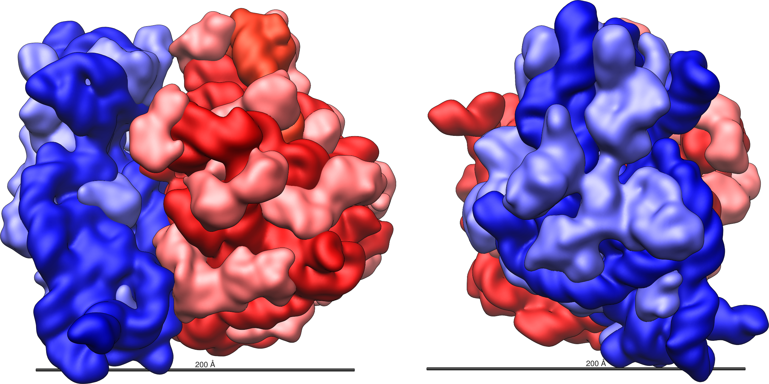 Structure and shape of the E.coli 70S ribosome. The large 50S ribosomal subunit (red) and small 30S ribosomal subunit (blue) are shown with a 200 Ångstrom (20 nm) scale bar. For the 50S subunit, the 23S (dark red) and 5S (orange red) rRNAs and the ribosomal proteins (pink) are shown. For the 30S subunit, the 16S rRNA (dark blue) and the ribosomal proteins (light blue) are shown.